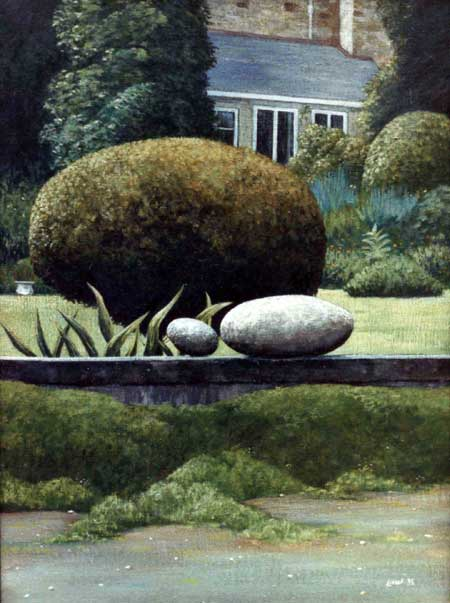 Cornish Garden No.1 (Margo Maeckelberghe's Garden) Peter Liddle 1988 Acrylic on Canvas 18' x 24'